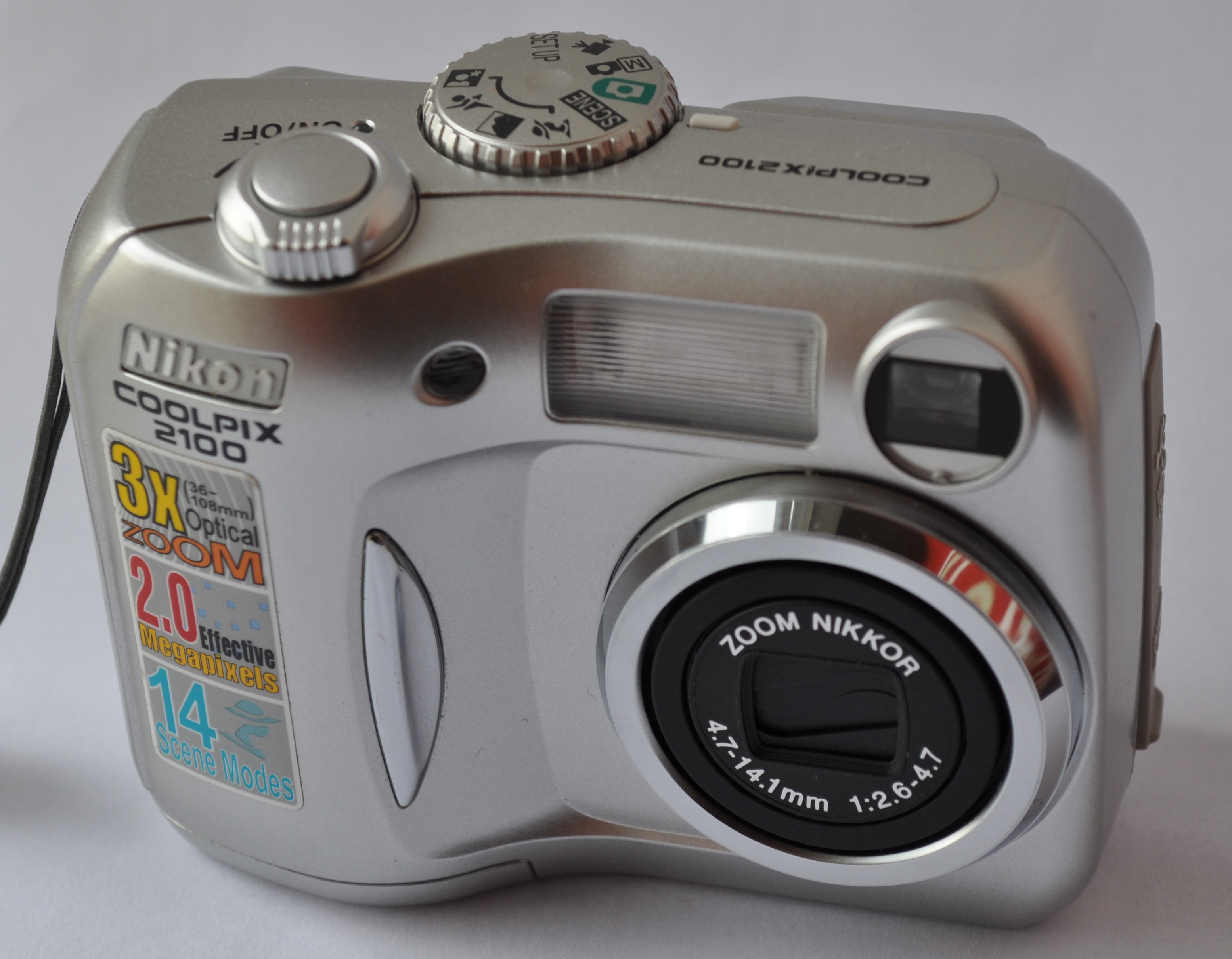 The Nikon Coolpix 2100